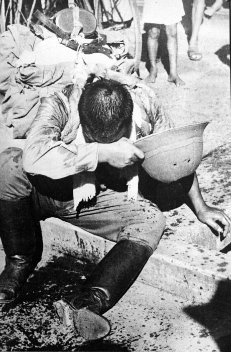 Repronegative. According to the photo caption this soldier would be committing harikiri (seppuku). A soldier commits harikiri after the capitulation of Japan.